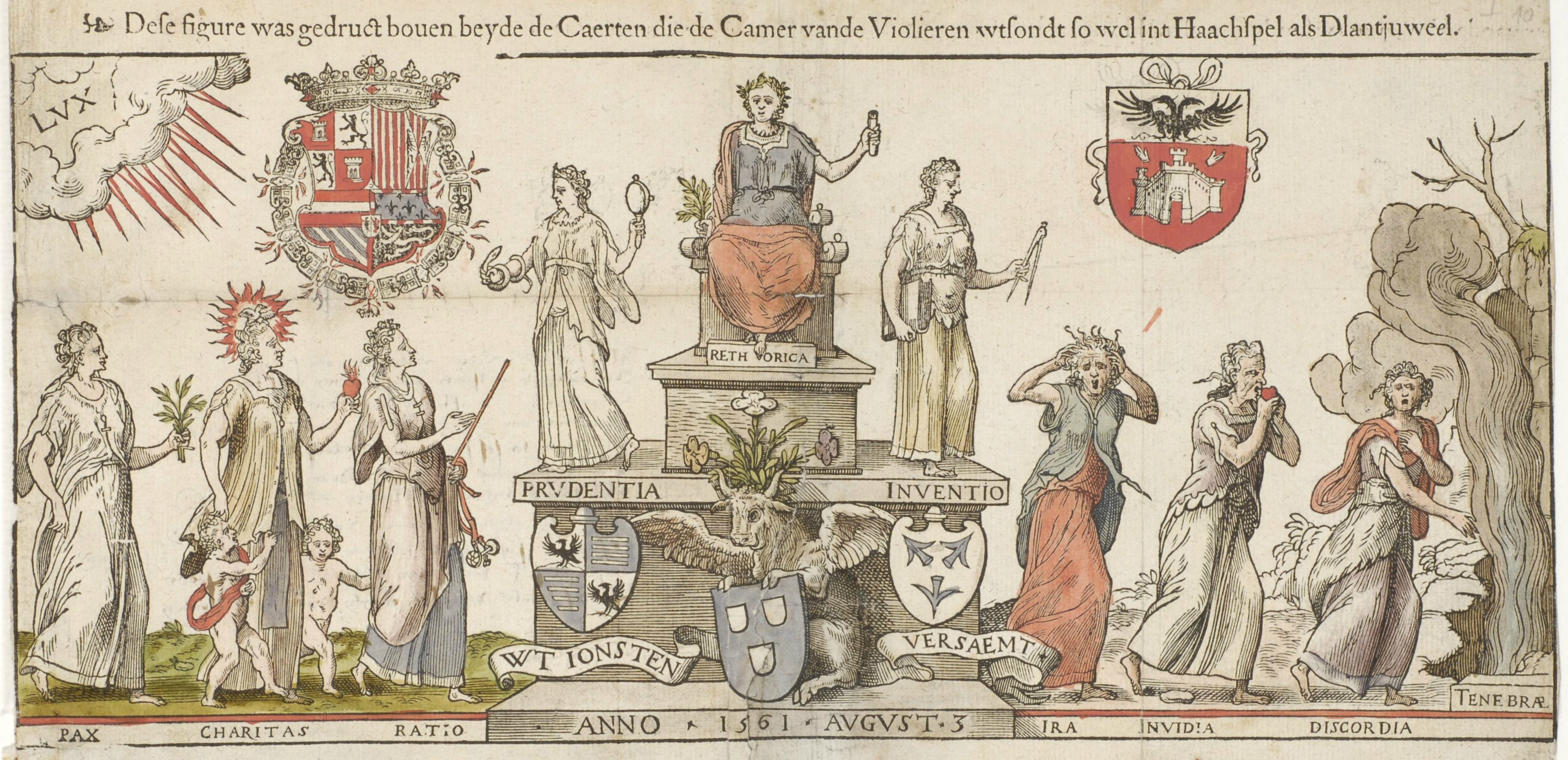 This allegorical woodcut shows Rhetoric enthroned between Prudence and Invention. The image topped a 1561 invitation from De Violieren (the leading Antwerp guild or "Chamber" of Rhetoric), sent to thirteen other chambers. The event was a Landjuweel, a prestigious and popular type of regional arts festival in the Low Countries. Chambers would design and produce public performances, competing with each other for prizes and reputation, in a manner similar to pageants and festivals produced by guilds and confraternities elsewhere in Europe. The well-documented 1561 Landjuweel in Antwerp was perhaps the most extravagant. Fourteen groups of Rederijkers (Rhetoriticians) took part over a period of 19 days, producing plays, processions, tableaux, and poems in answer to the question: What best awakens man to the arts? The works emphasized Rhetoric and the other Liberal Arts along with Christian piety and corporate sponsorship. Methods employed were allegorical figures, parallels with the natural world, and scriptural allusions. The common tone was that of the esbatement, a short, amusing morality play, and humor was an important element of judging, along with moral persuasion. Jan Steen repeatedly depicted the rhetoriticians' combination of sincere intent and frivolous activities. The virtues PAX, CHARITAS, and RATIO are approaching from the direction of a heavenly light, while the vices IRA, INVIDIA, and DISCORDIA are proceeding toward an infernal darkness. The arms of Philip II are on the left; those of Margraviate of Antwerp are on the right. Before the pedestal are the arms of Melchior Sketch, that of the Guild of St. Luke (held by his emblematic ox), and that of Antoon Rays, Lord of Merksem. Also shown is the motto of De Violieren, Wt ionsten versaemt ("gathered together in a spirit of goodwill"), which is suggested by the allegory.